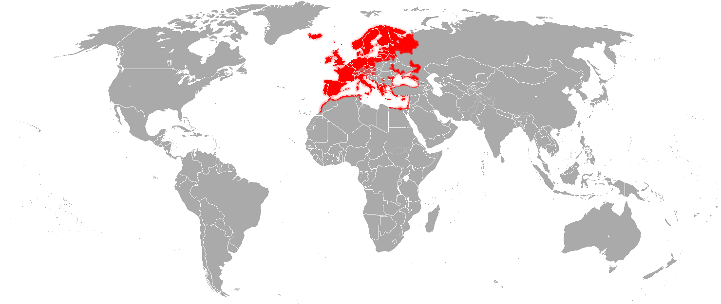 Range Map of Anguilla anguilla